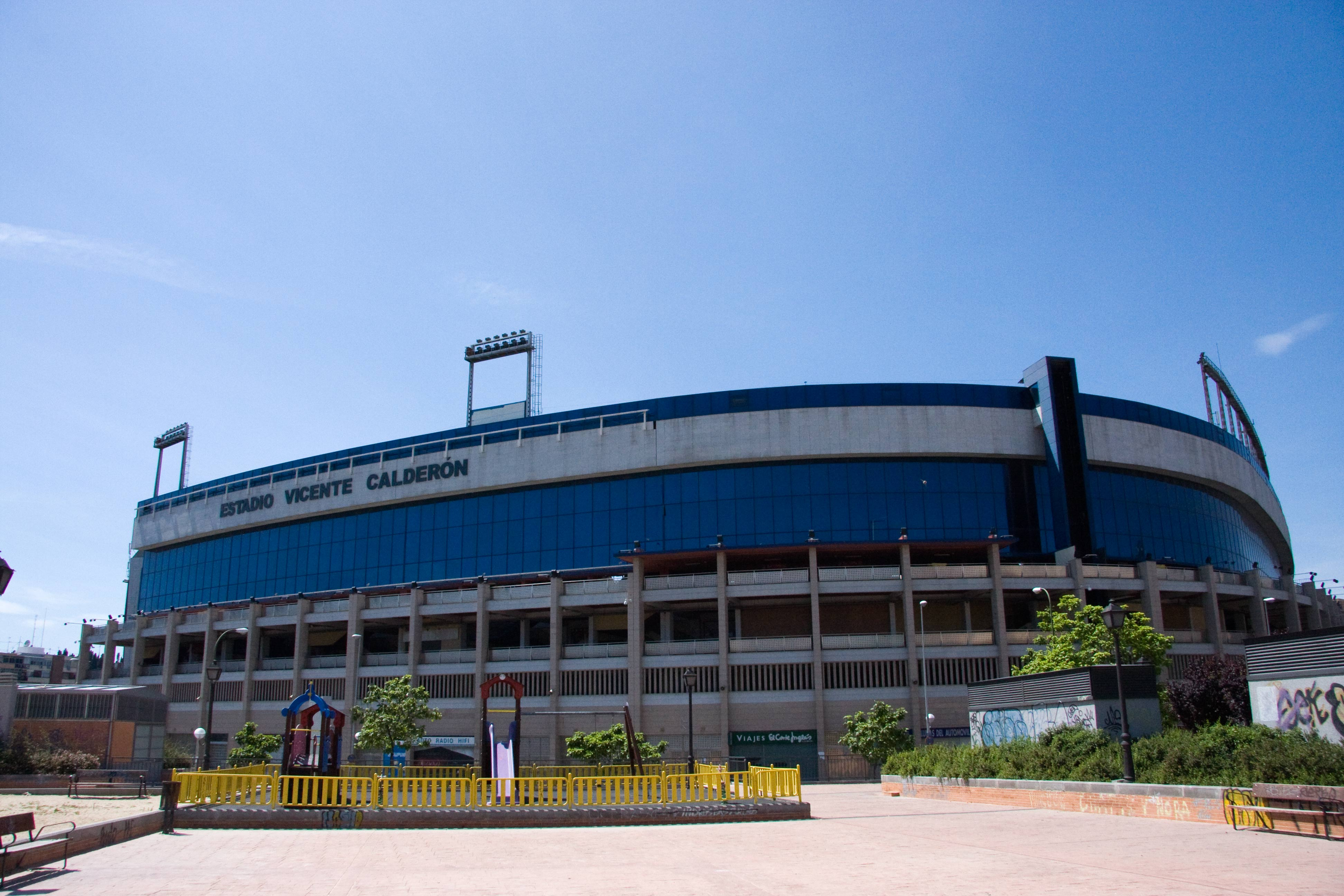 Estadio Vicente Calderon, Madrid.